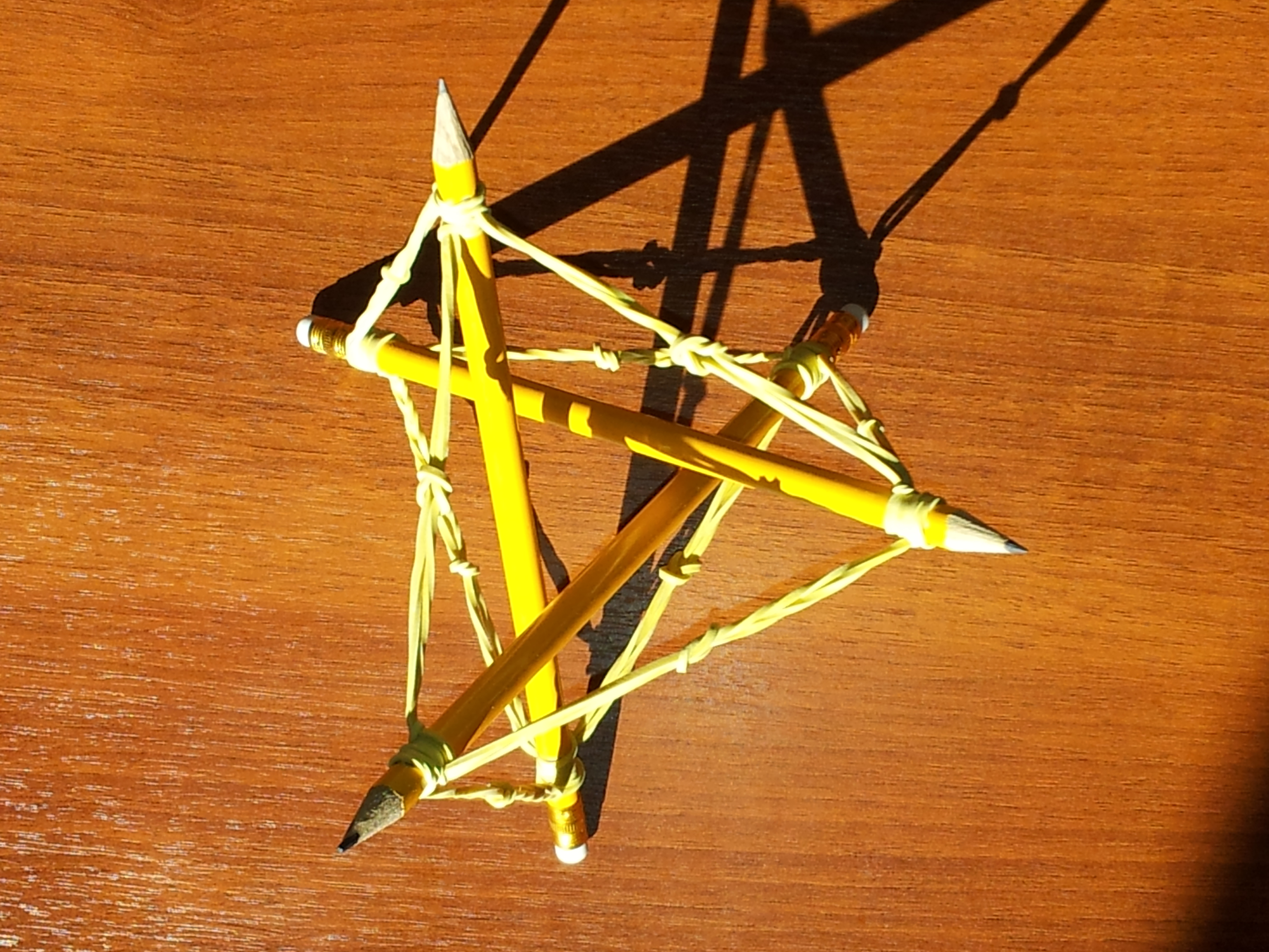 Tensegrity 3-prism from pensils and rubber bands